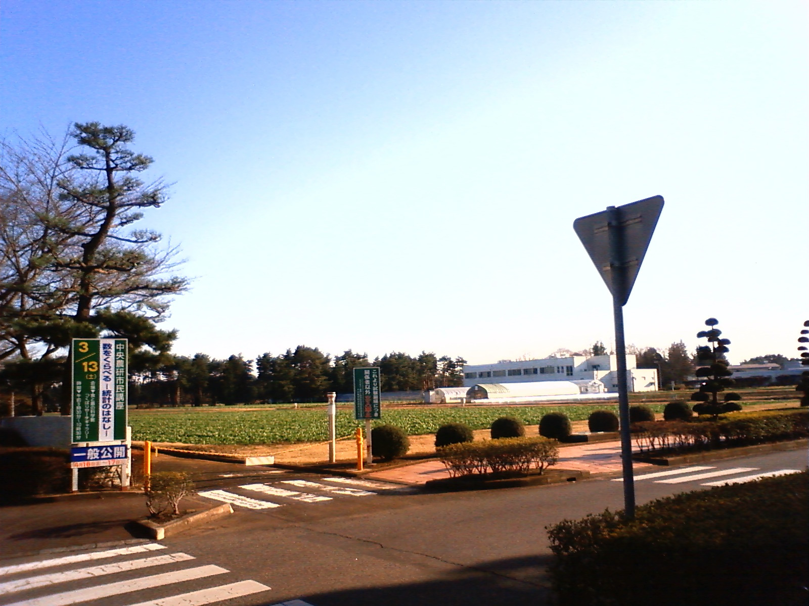 This is an entrance of National Agricultural Research Center in Tsukuba, Ibaraki, Japan.